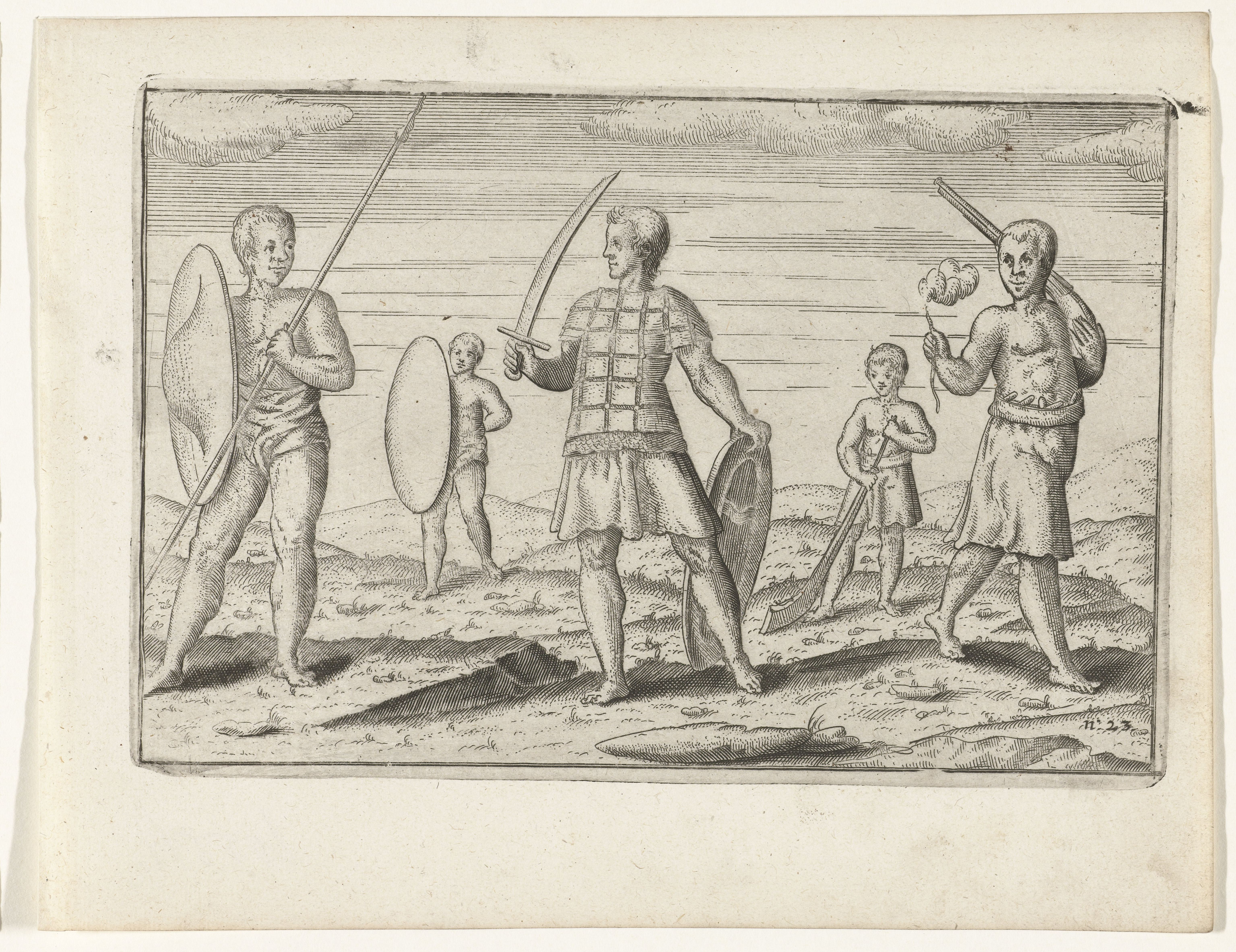 Three soldiers from Bantam (Banten), 1596. Soldiers with spear, shields, sword, and rifles.